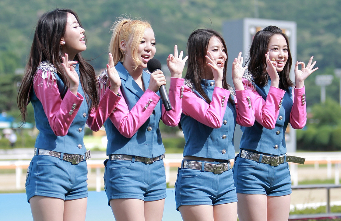 Purplay in June 2013